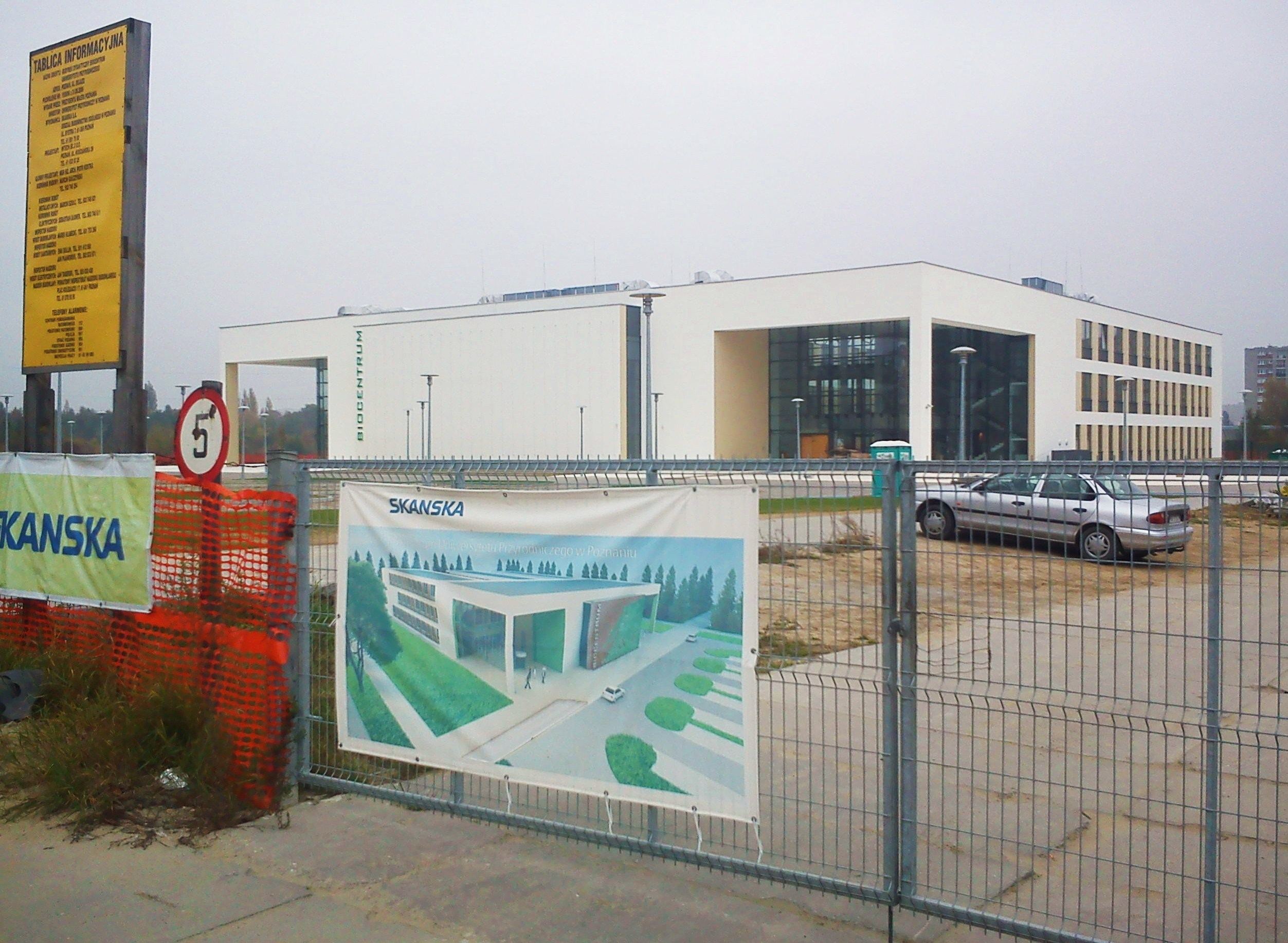 Construction of the university building - Biocentrum Poznań, University of Life Sciences. Dojazd Street.